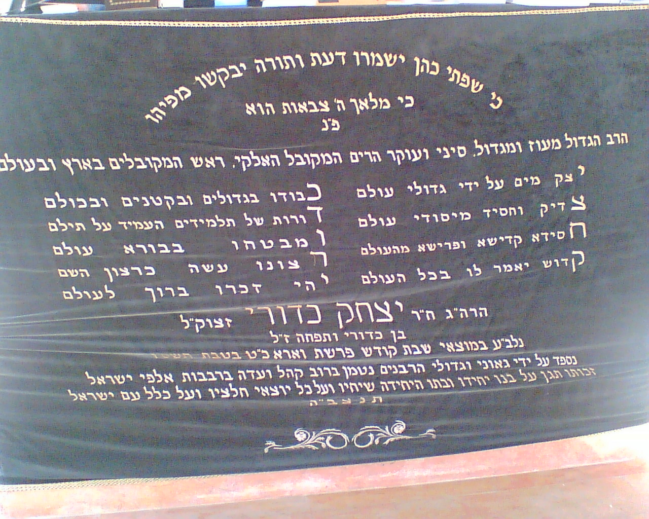 Grave of Rabbi Yitzhak Kaduri in the Har Tamir cemetery, Jerusalem